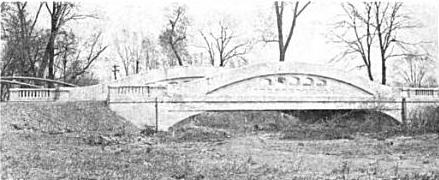 A concrete curved-chord through girder bridge, or camelback bridge, over the Raisin River at Tecumseh, Michigan, built in 1922.